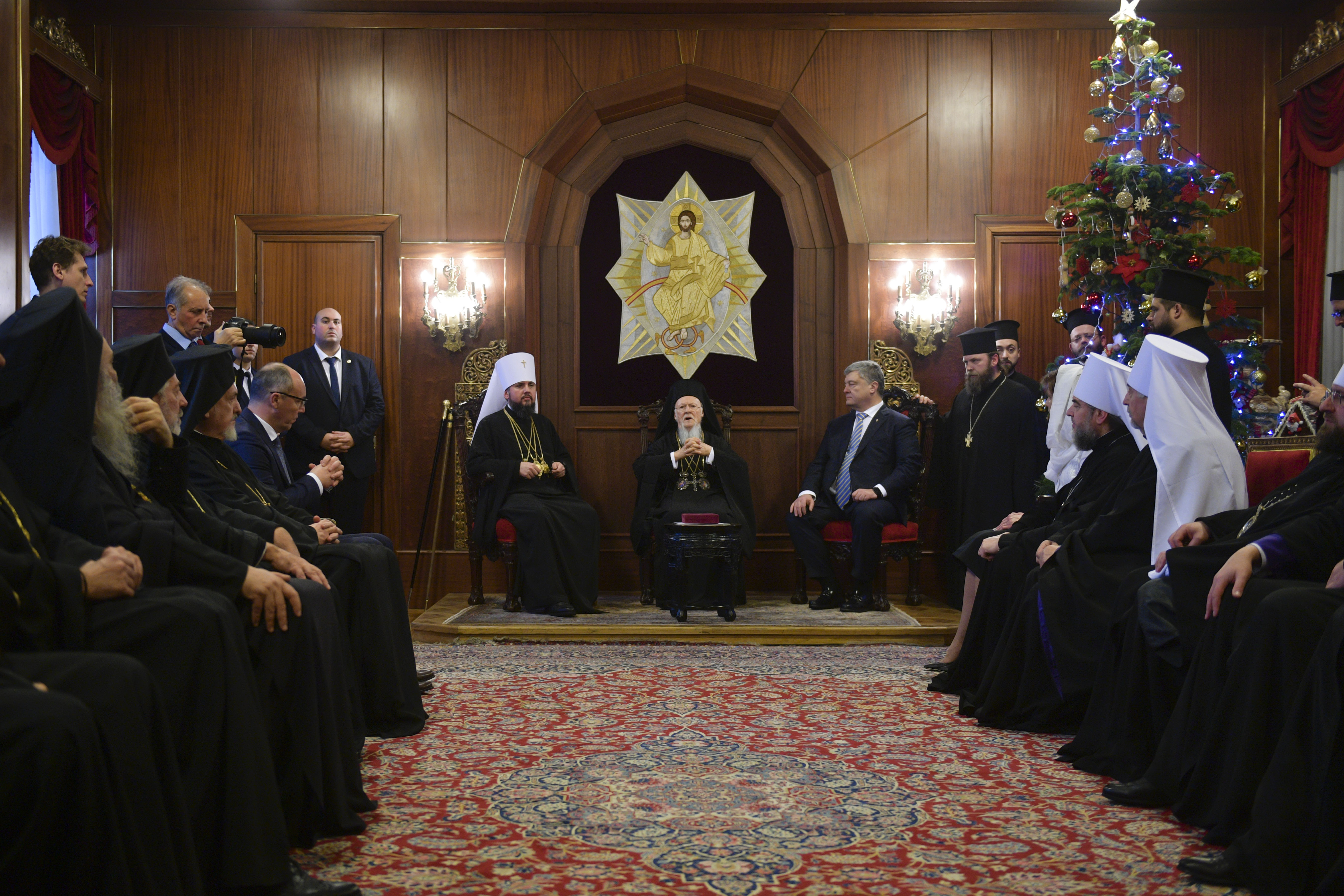 Working visit of the President of Ukraine Petro Poroshenko to the Turkish Republic (2019-01-05)